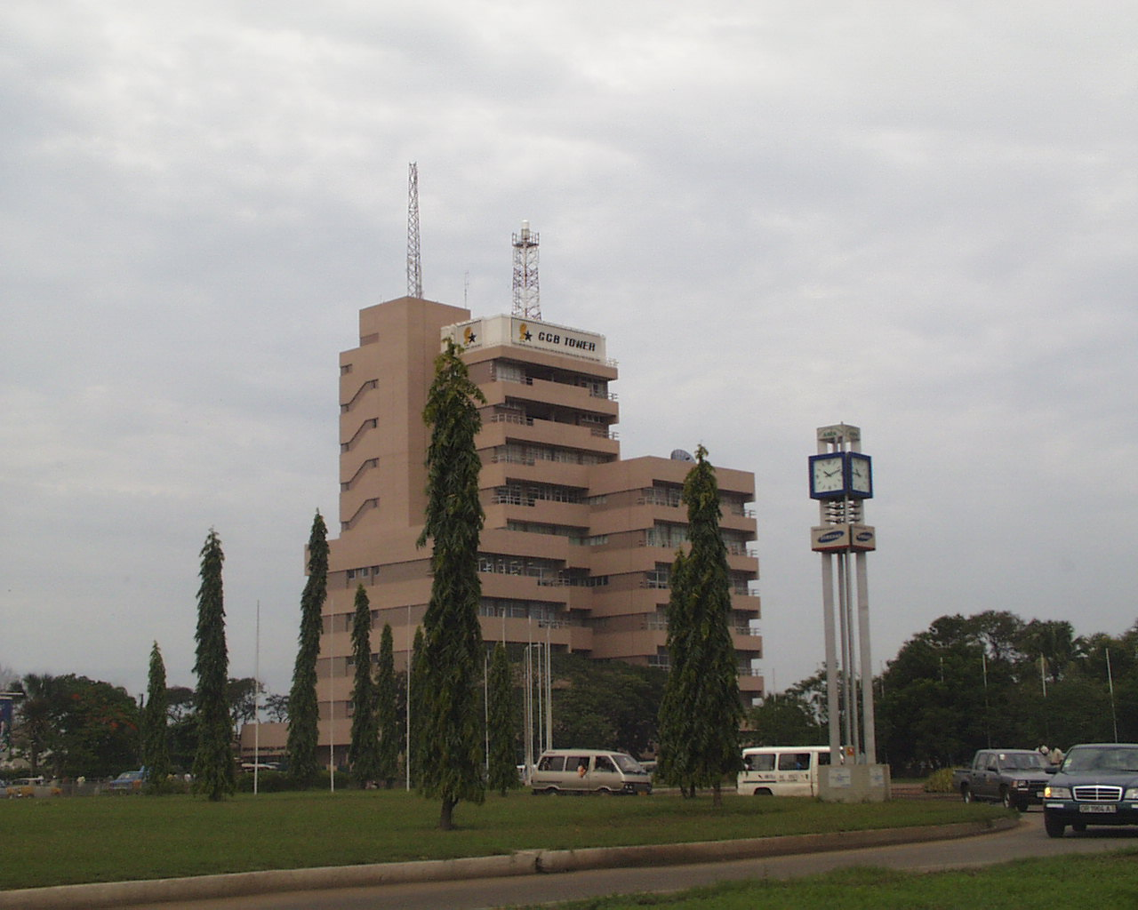 Building of the Ghana Commercial Bank (en) in Accra, Ghana This is the building where I worked while in Ghana.